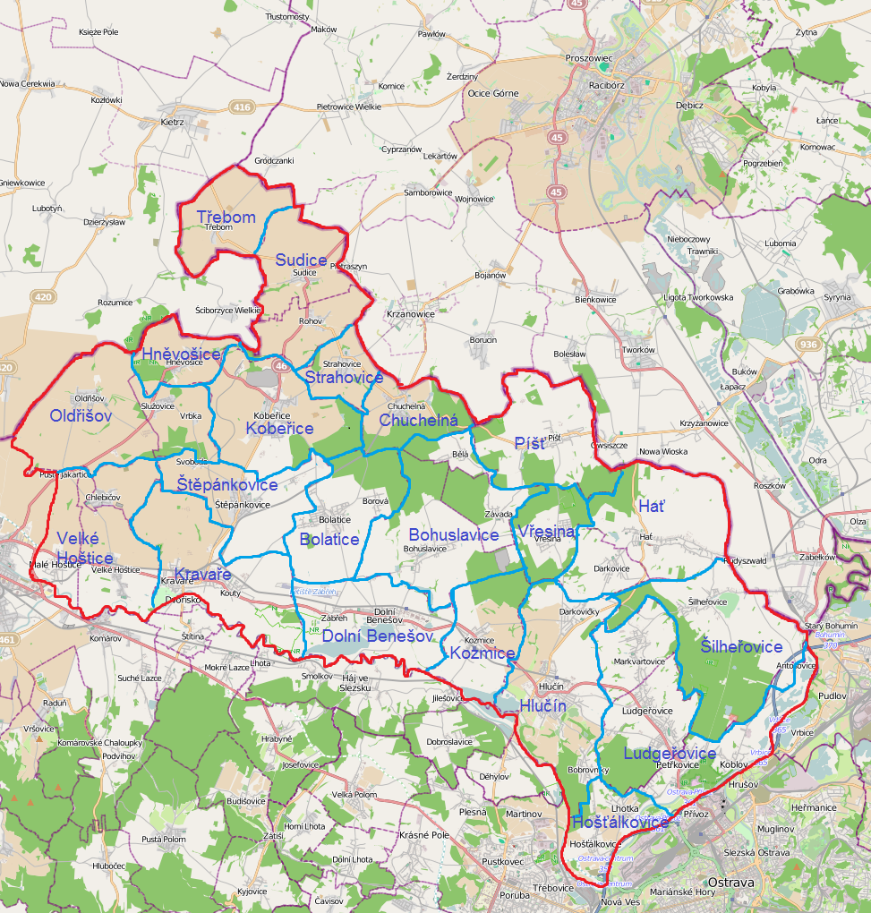 Hlučín Deanery with parish boundaries (1949) This map of Hlučín, Ostravský kraj, Czech Republic was created from OpenStreetMap project data, collected by the community. This map may be incomplete, and may contain errors. Don't rely solely on it for navigation.